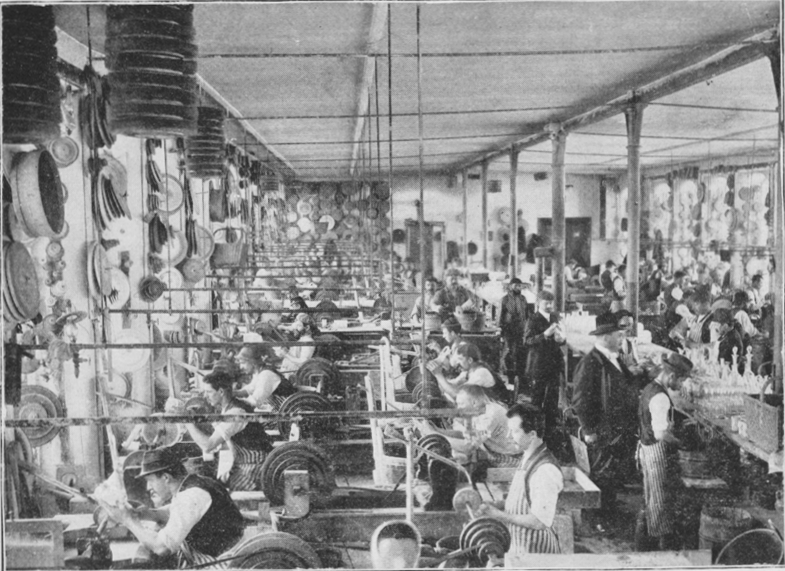 Grinding of glass in Nový Svět outside Harrachov, Bohemia (present-day Czech Republic). Illustration to an article Ze života lidu v Krkonoších („Life of people in Krkonoše“) by Anastáz Papáček.